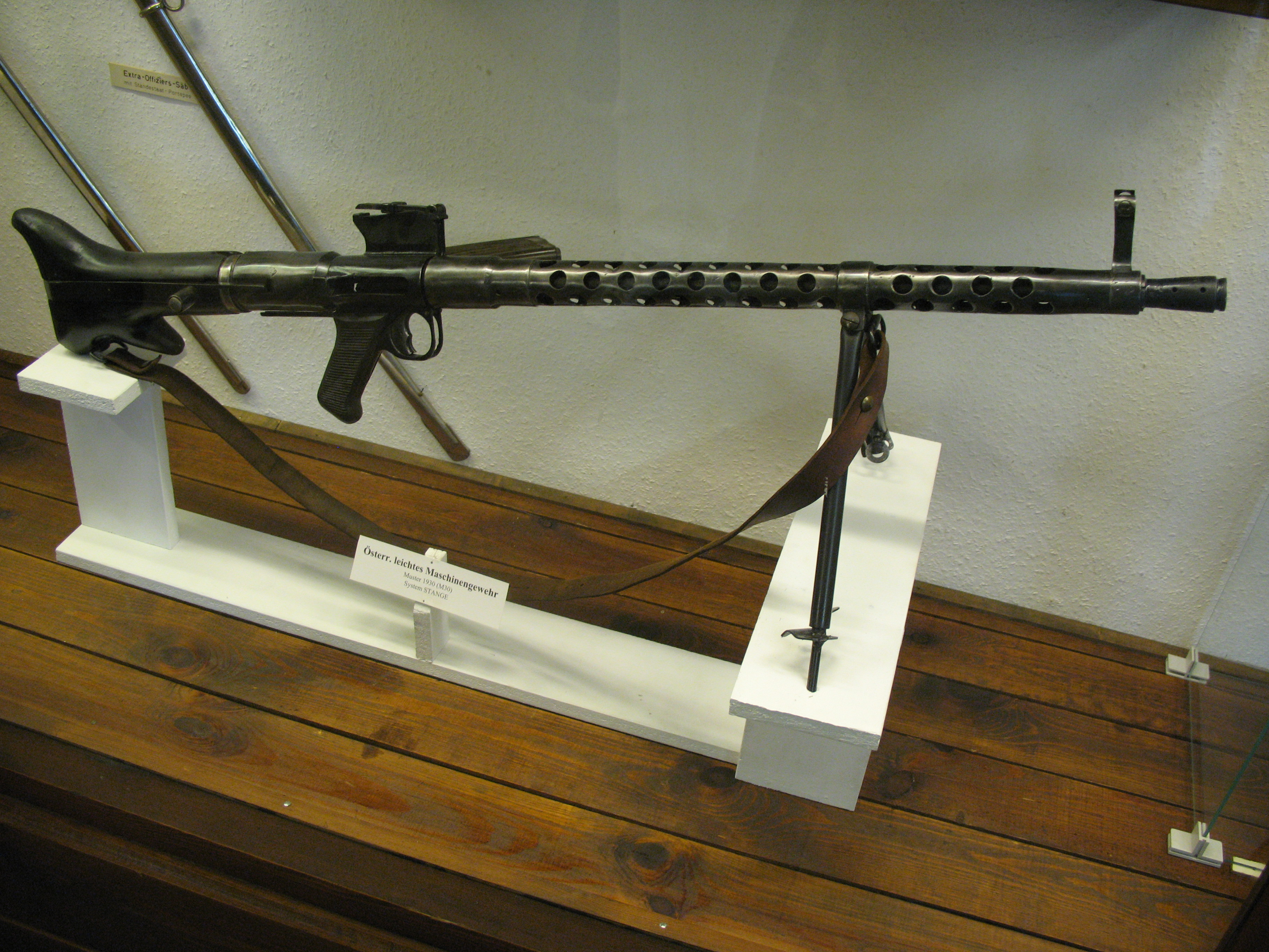 Austrian light machinerifle; High Fortress, Salzburg, Austria